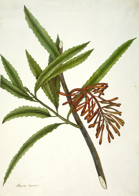 botanical illustration of Knightia excelsa, Common name:Rewarewa. Alternate name (little used):New Zealand Honeysuckle. Proteaceae.